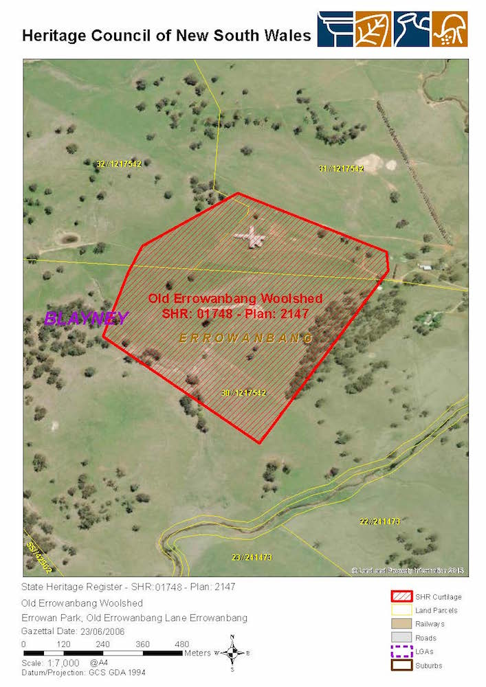 Old Errowanbang Woolshed: SHR Plan 2147